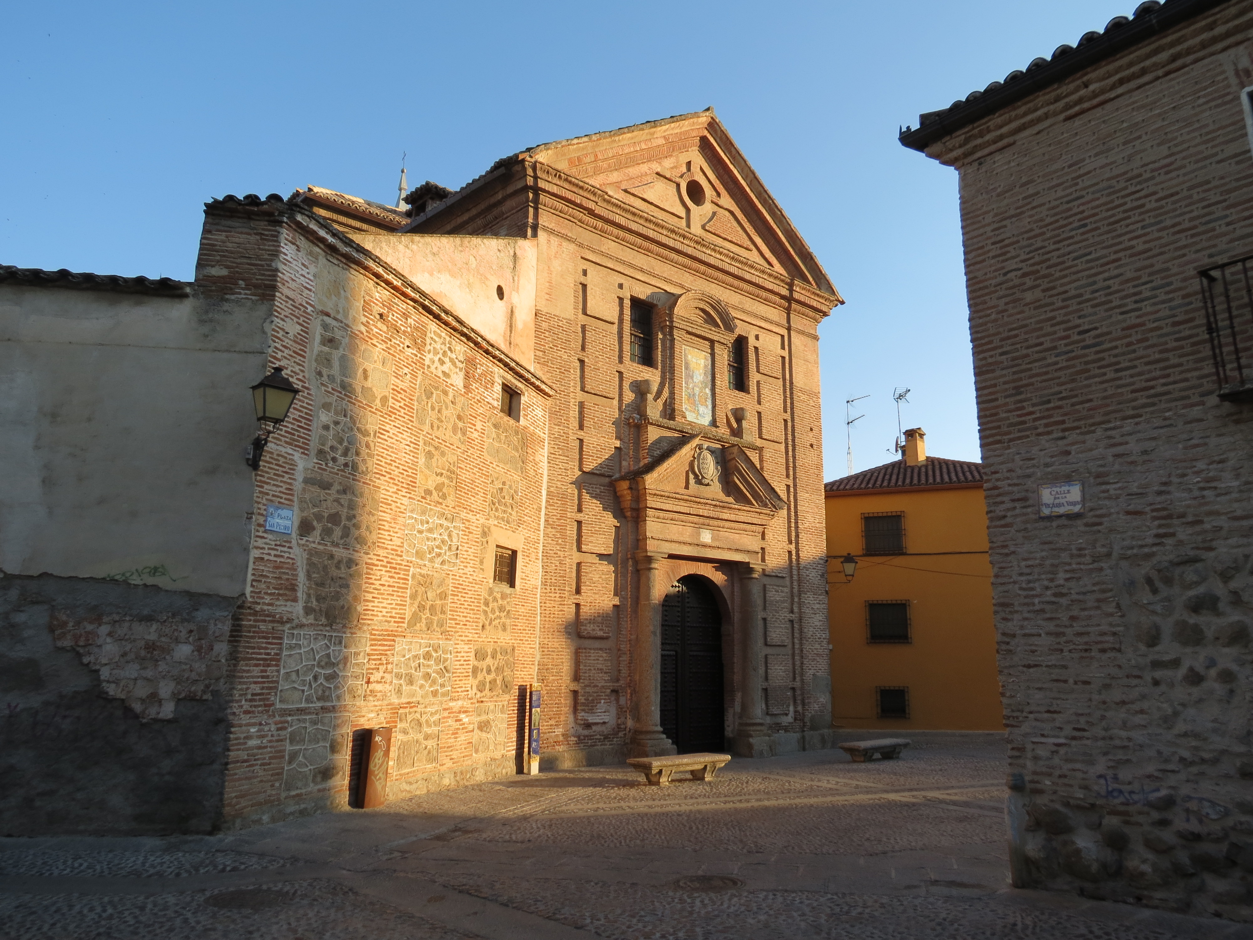 Saint (Spain)